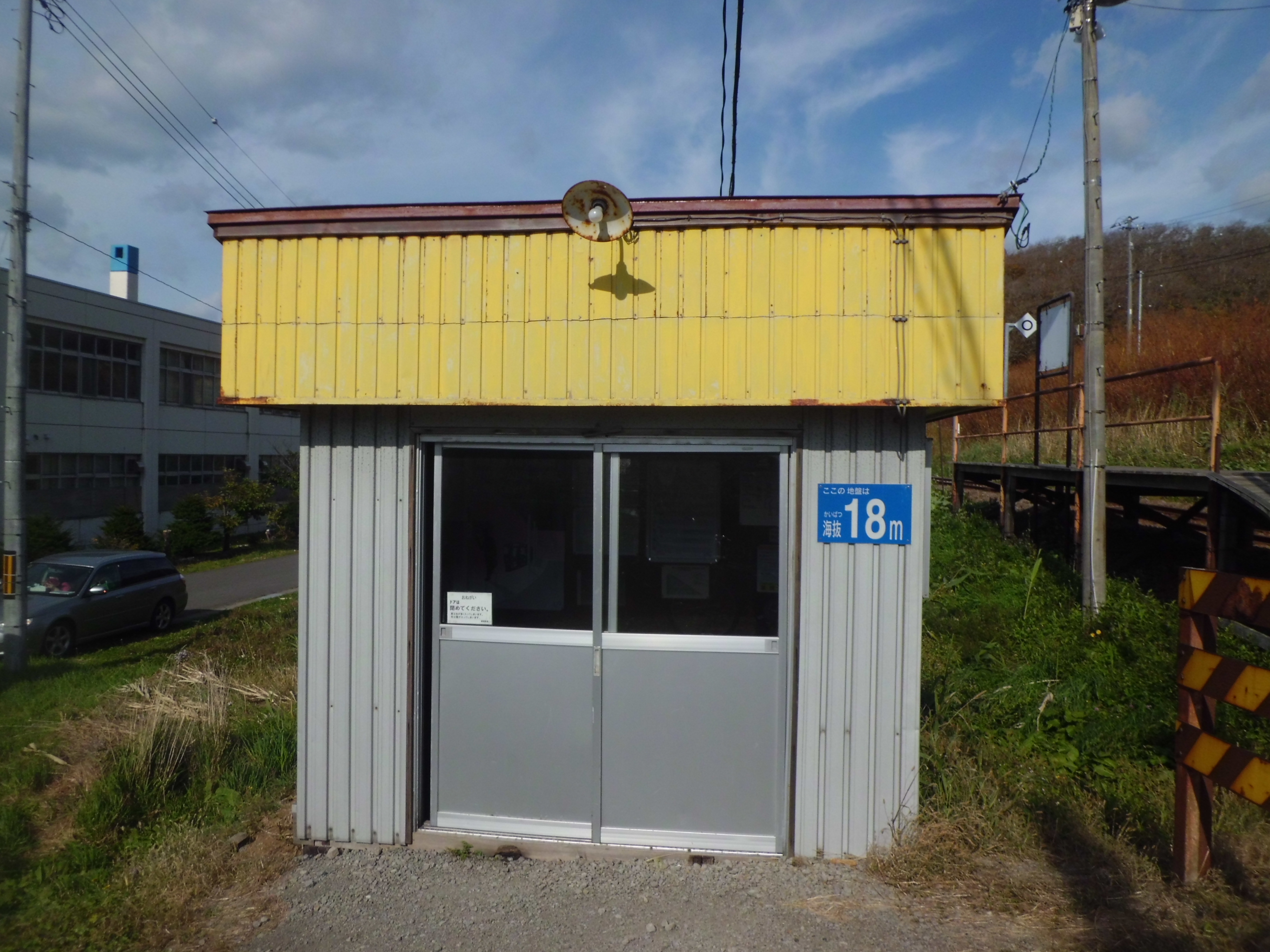 Waiting room of Afun Station